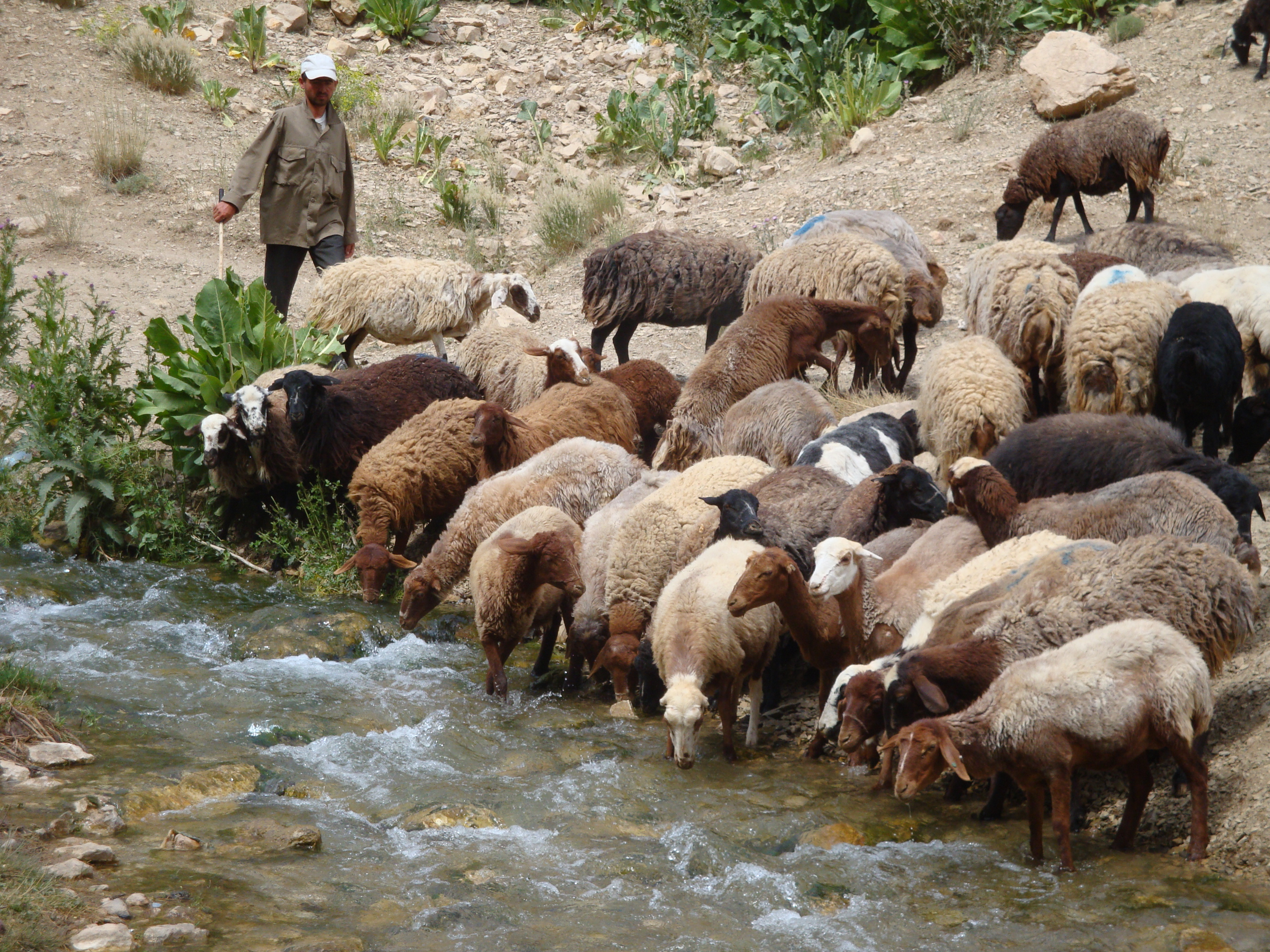 Tangeh Vashi, Tehran Province, Iran, Summer 2011. Photo by Abbas Afsharibakhsh / Persian Dutch Network